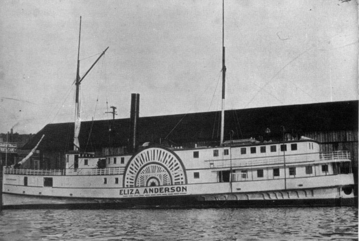 Sidewheeler Eliza Anderson at a pier, unknown location, sometime before 1899.